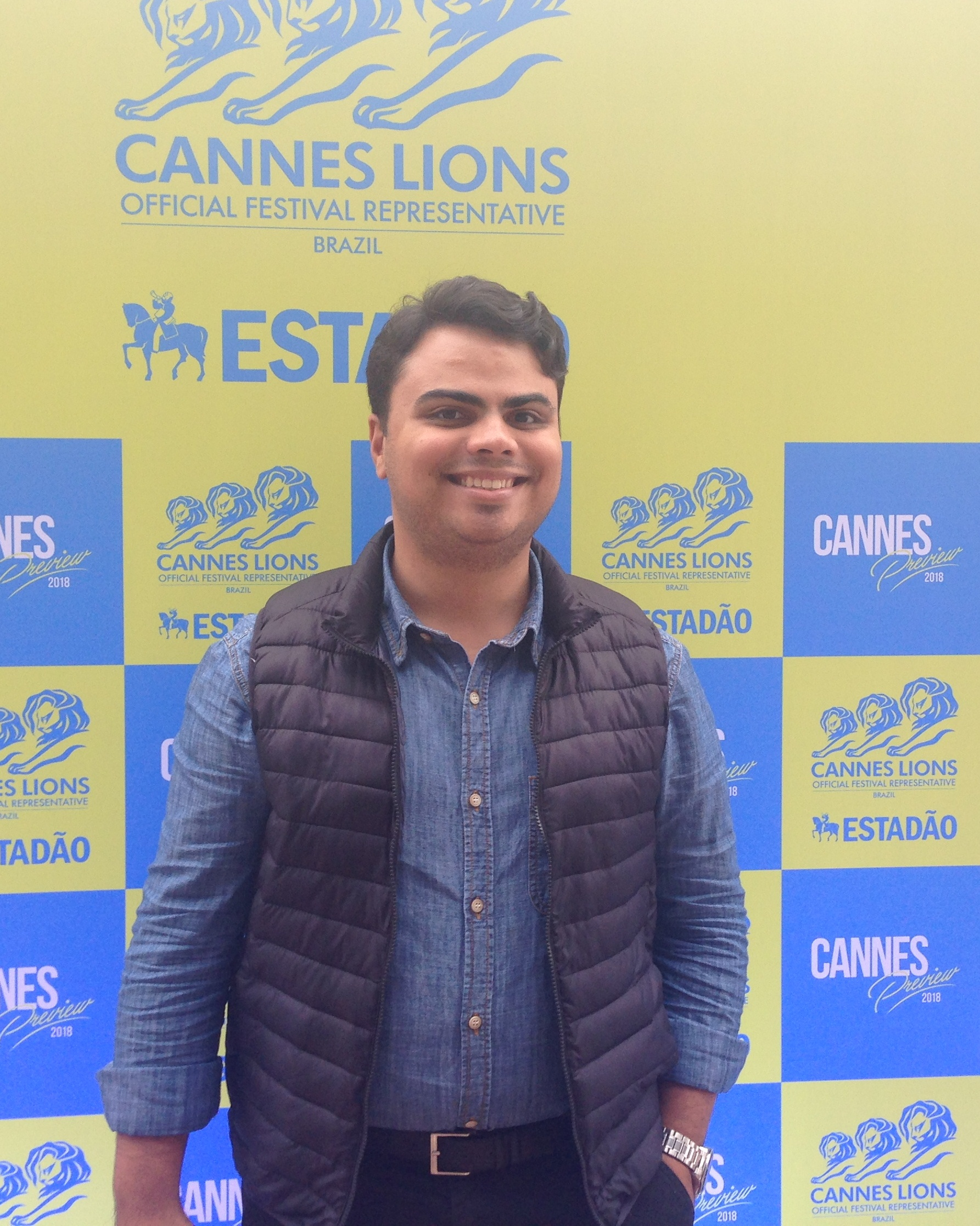 Brazilian artist and poet Ítalo Anderson at Cannes Preview 2018, in São Paulo.